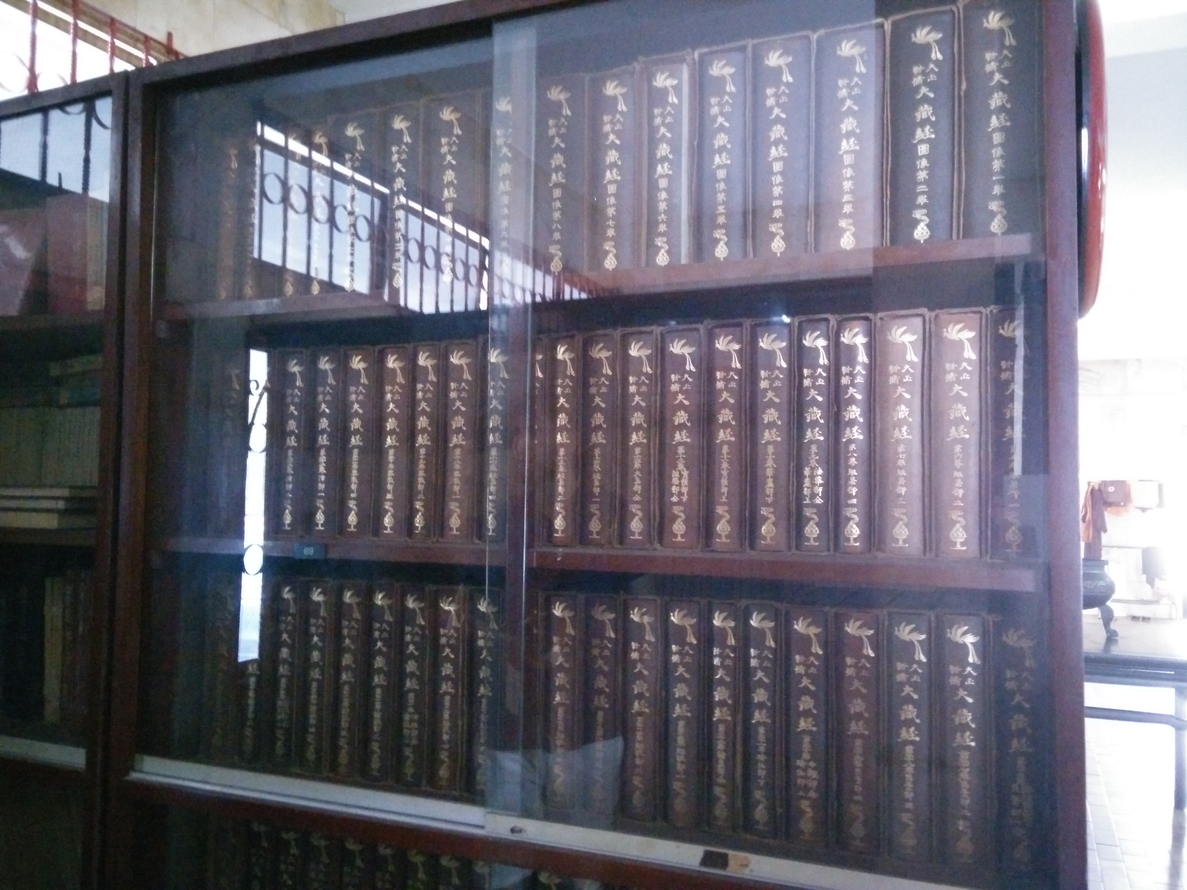 Image of Pali Canon